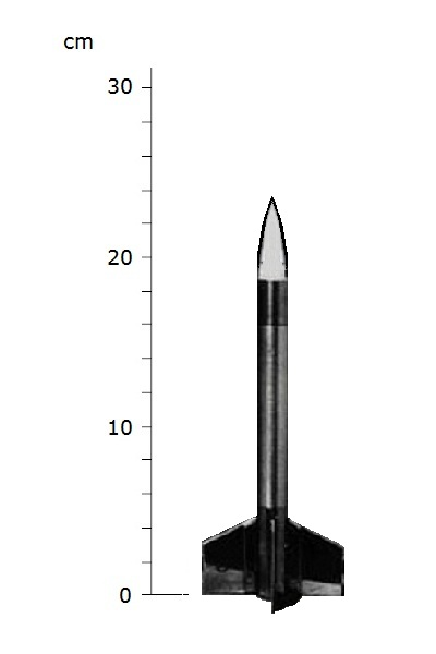 Pencil rocket shape, the very first Japanese rocket.